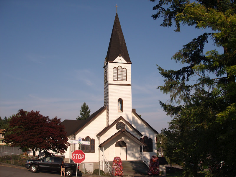 The historic church of Our Lady of Lourdes (Notre Dame de Lourdes) on Laval Square in Maillardville (Coquitlam), British Columbia.